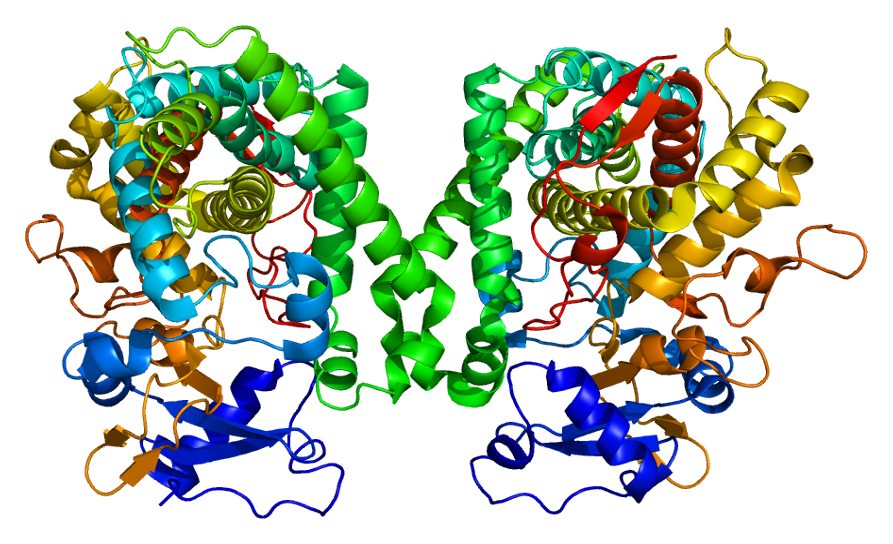 Structure of the CYP2C8 protein. Based on PyMOL rendering of PDB 1pq2.